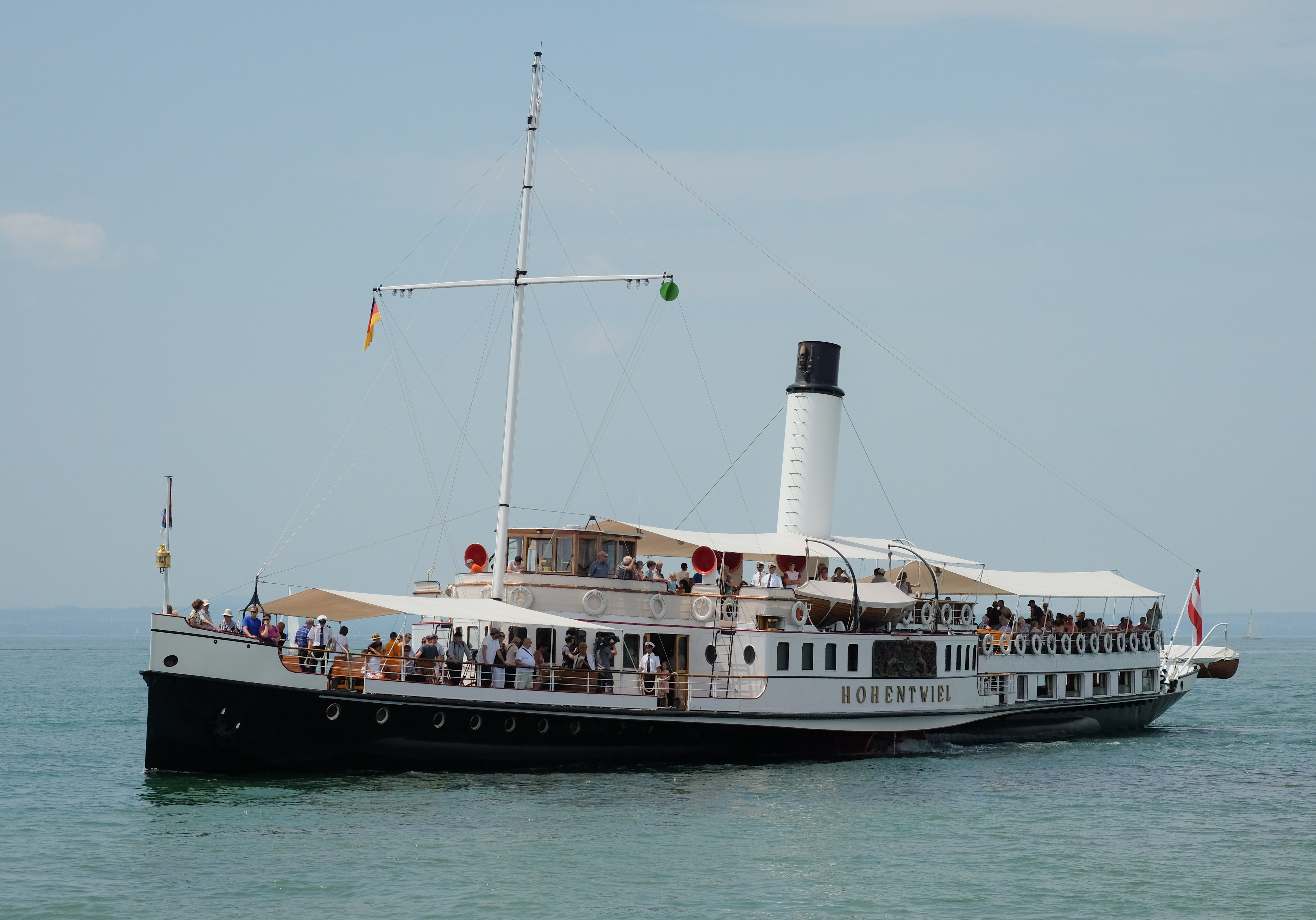 Paddle steamer Hohentwiel (1913) near the port of Langenargen, Lace Constance, Baden-Württemberg, Germany